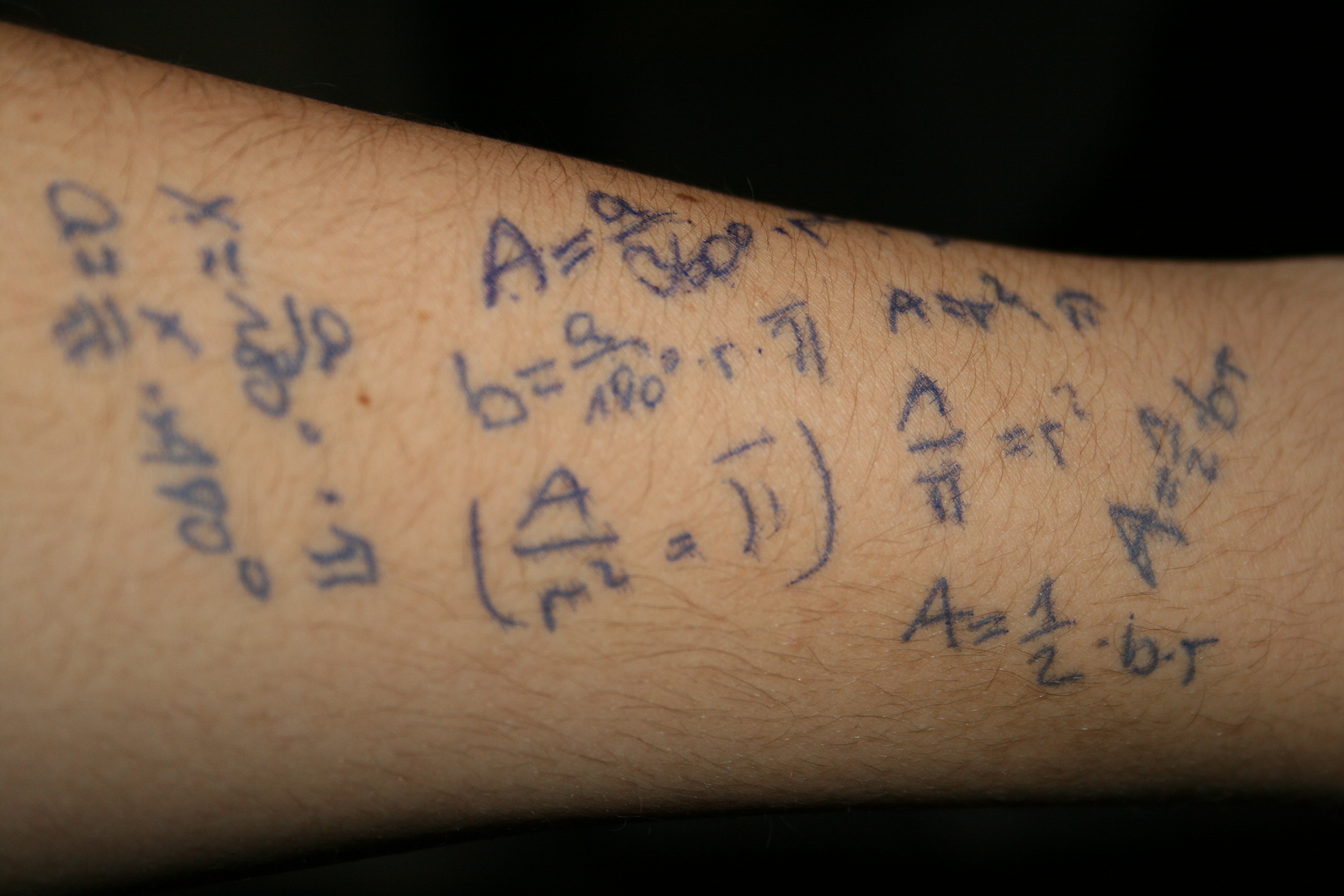 Mathematical formulas (Are "Armed" :P)